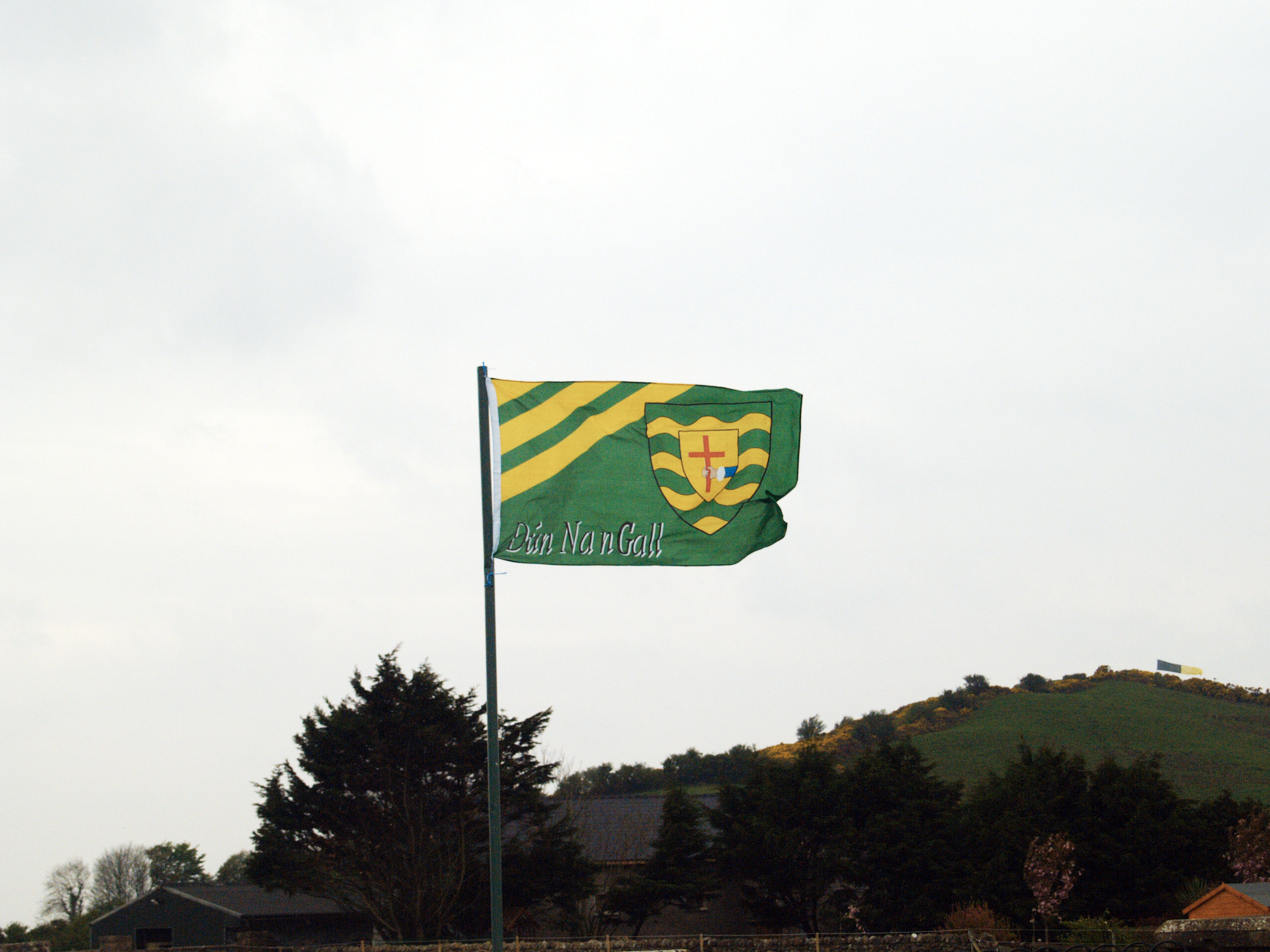 Donegal County Flag. Sunday 22/4/07. The Gaelic football team are playing in the final of the 2007 National Football League. The Donegal Flag is Green and Yellow with a crest. If you notice, at the top of the picture is another flag, and the fields are green and the hedge row is yellow. The words on the flag are Dún Na nGall, which is Gaelic for Donegal.